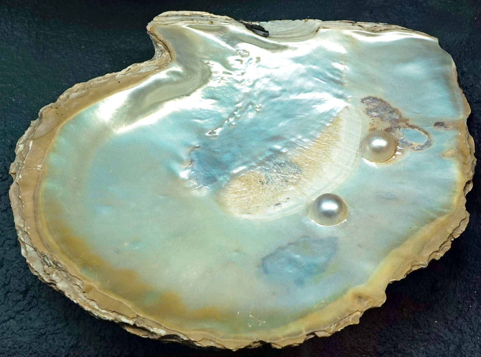 Pinctada margaritifera with 2 perles. Augsburg Naturmuseum.